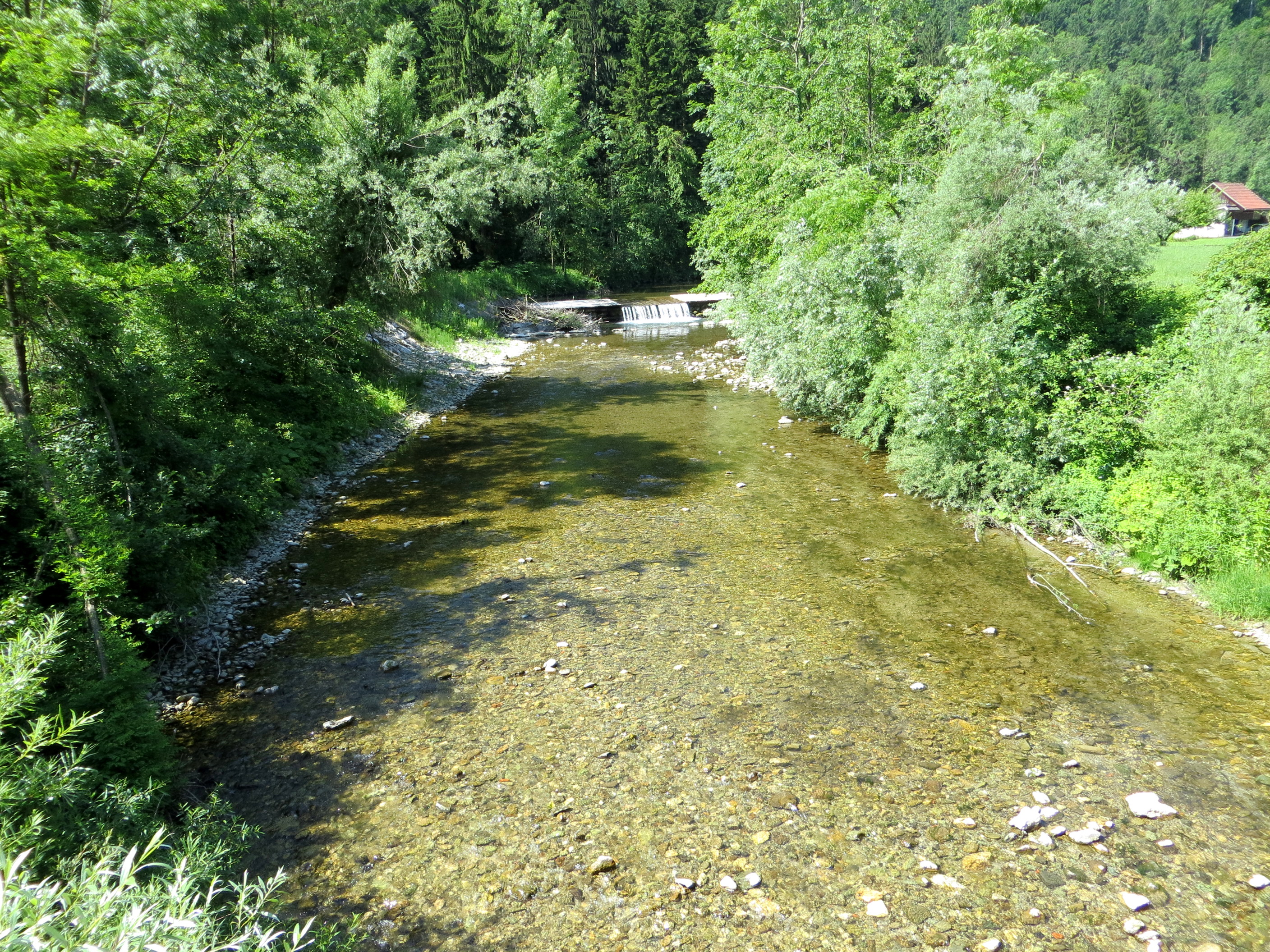 The Dreta River in the hamlet of Kropa in Bočna, Municipality of Gornji Grad, Slovenia